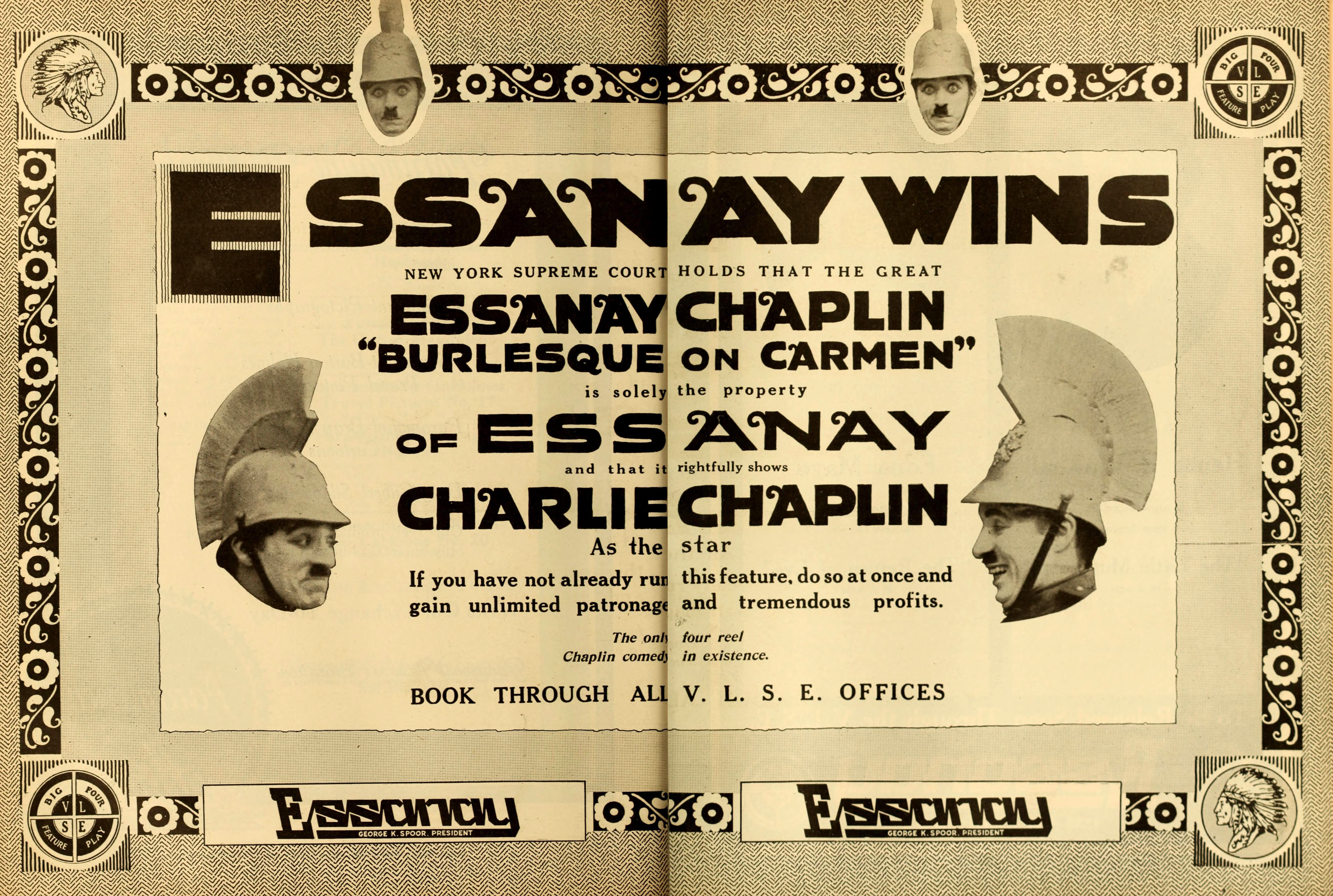 Advertisement in The Moving Picture World